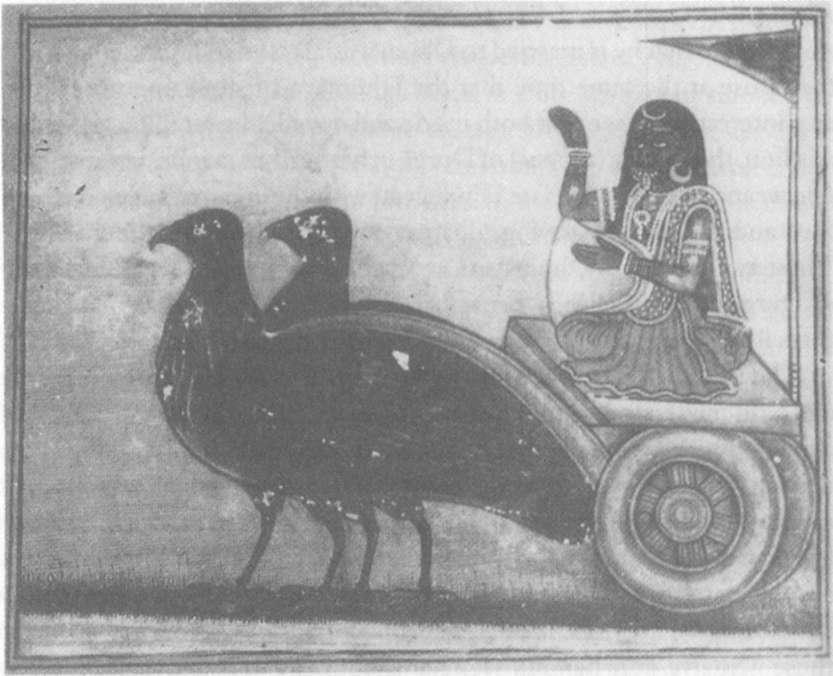 Dhumavati, by Molaram, late eighteenth century, Garwahl, Himachal Pradesh.